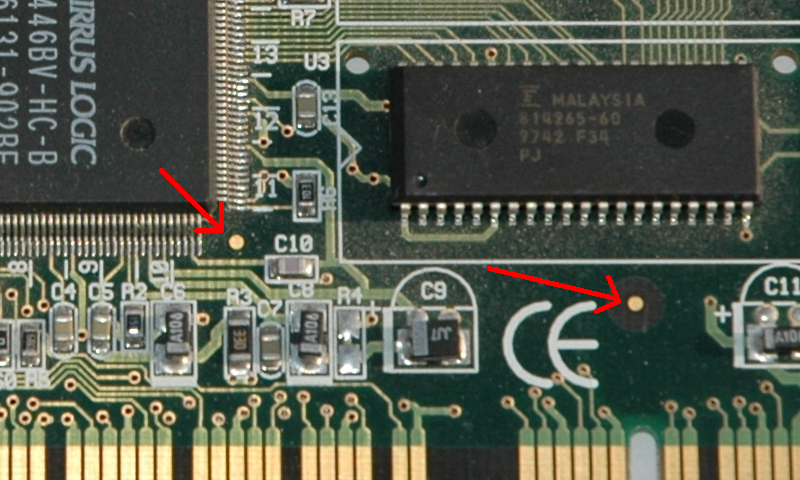 Two fiduciary markers on a Cirrus Logic CL-GD5446 graphics card PCB with 5V PCI interface